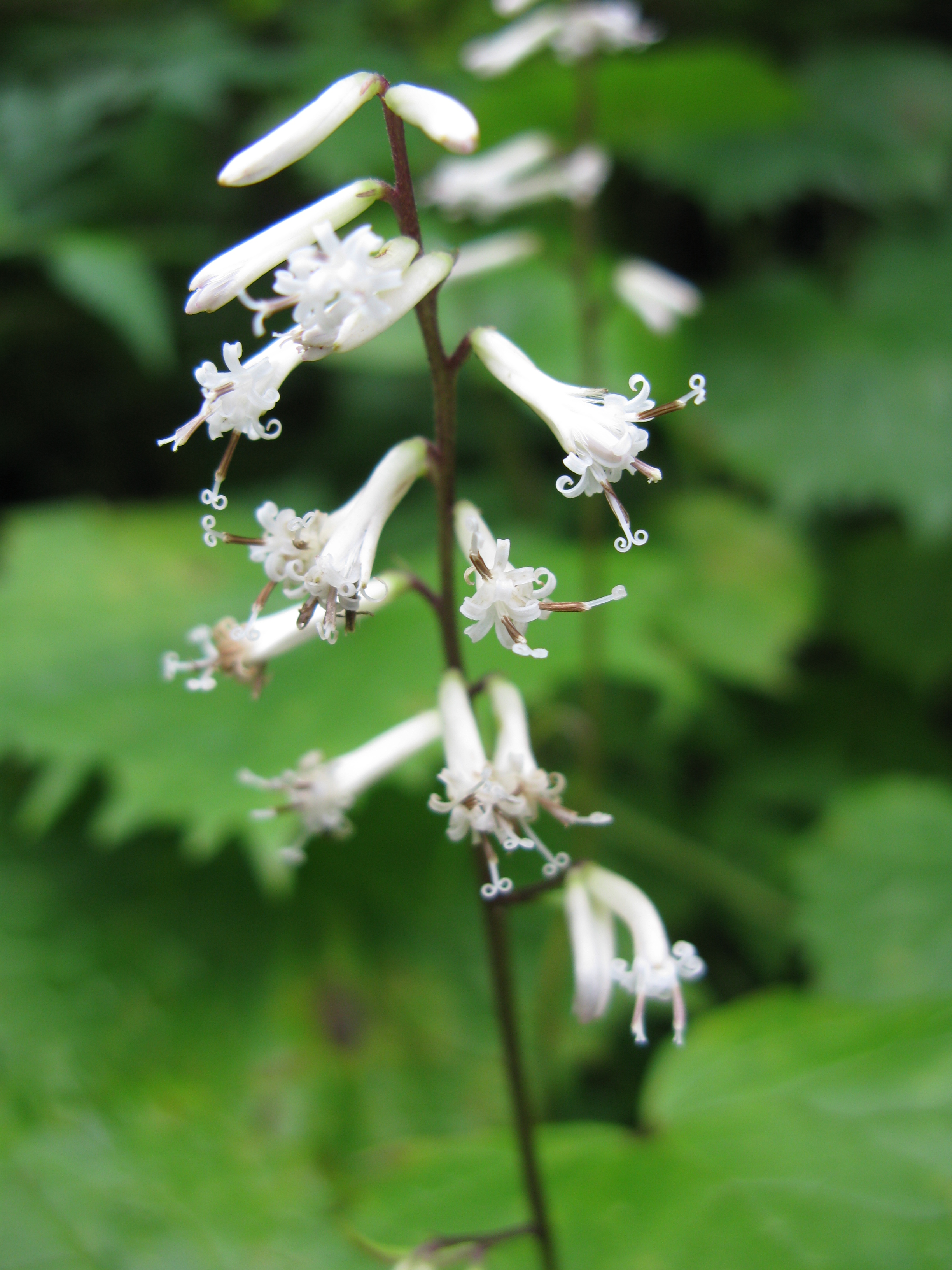 Parasenecio adenostyloides,Mt.Nishiazuma-yama,Yamagata pref.,Japan